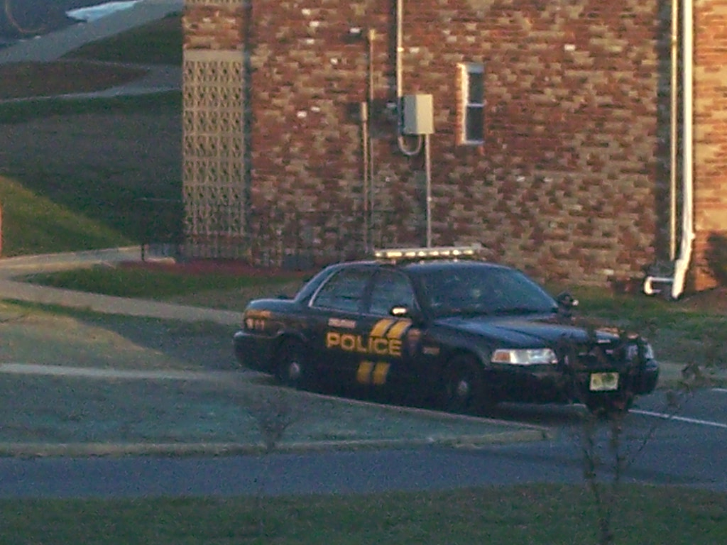 A Delran, New Jersey police car. Picture was taken in January 2008. Photo owned by MOOOOOPS.